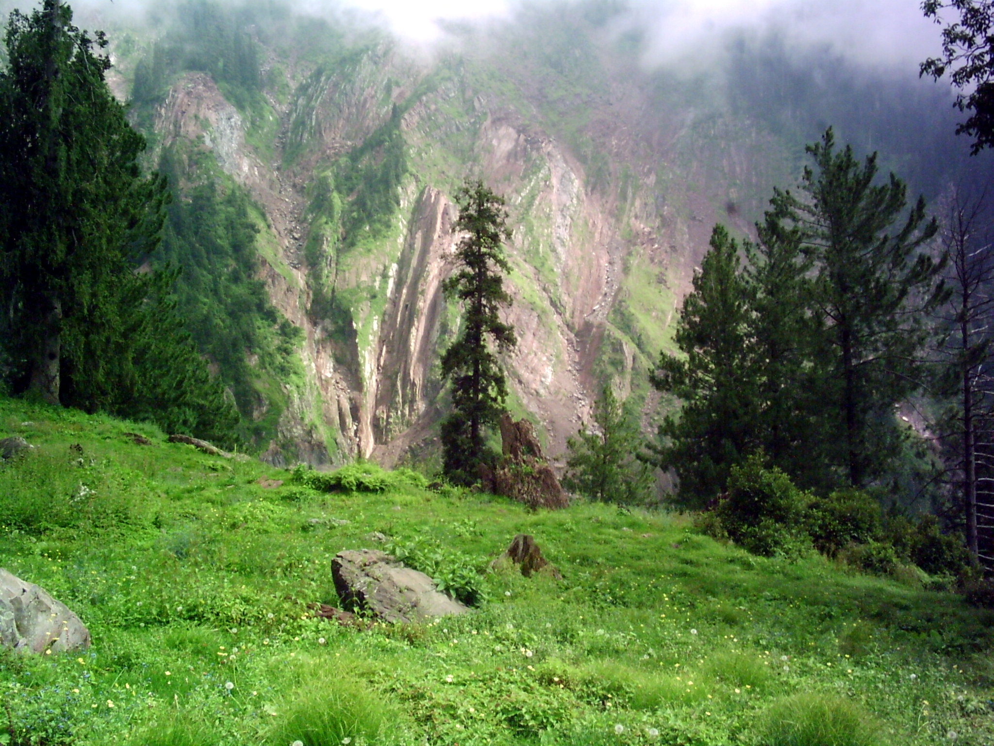 Pathra-(Banrian) Kanshian-July2008